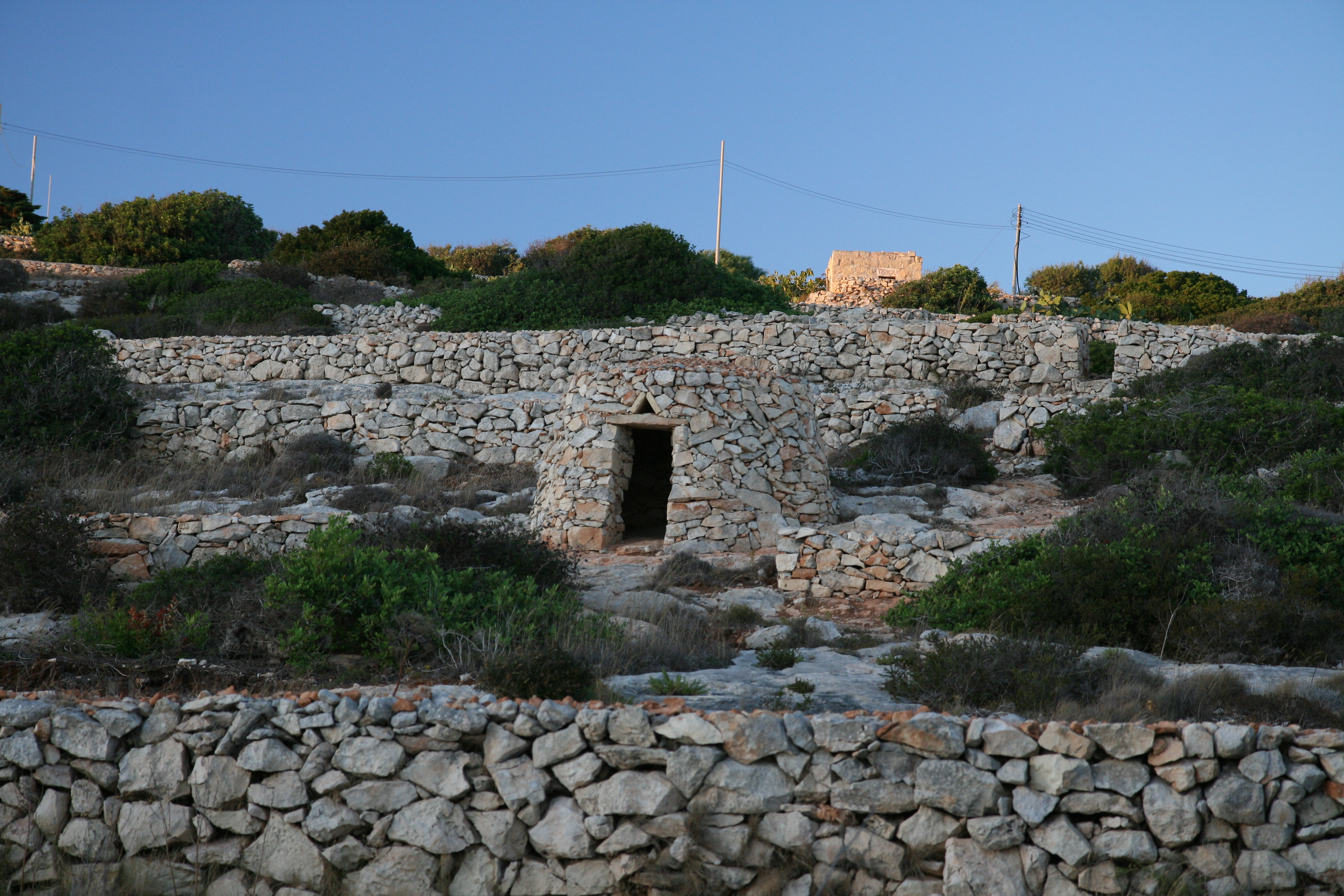 The modern talayot on Malta